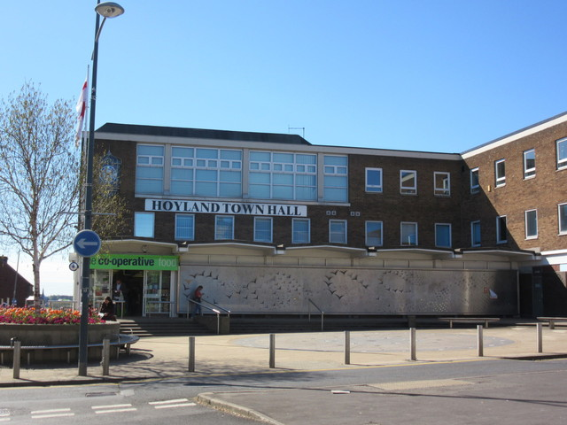 Hoyland Town Hall in the village of Hoyland, Barnsley